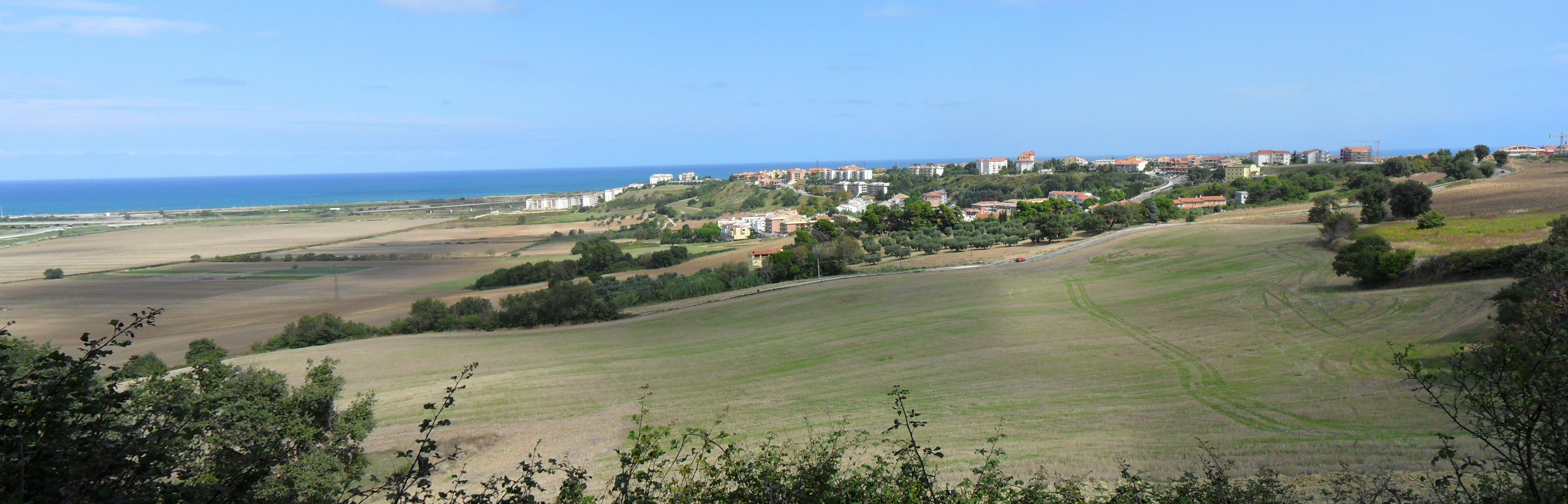 Panorama from a hill of Termoli